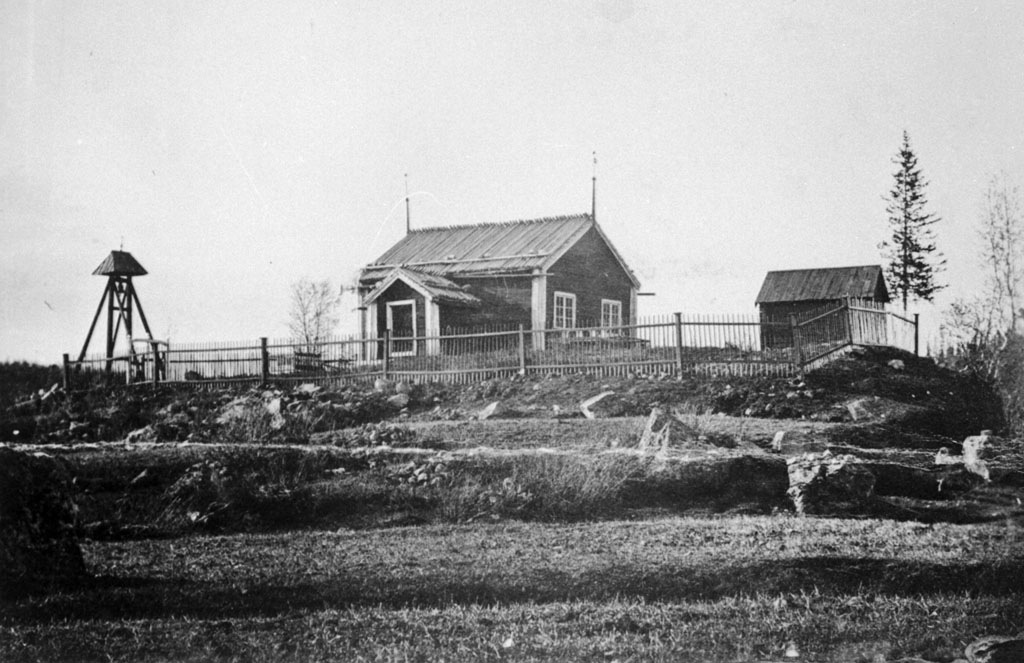 Kvikkjokk Old Chapel from 1673. The chapel, built for the workers of a smelting plant for silver ore from the mines in Alkavare, was replaced by a new church in 1906. To the left is a bell tower. Parish (socken): Jokkmokk Province (landskap): Lappland Municipality (kommun): Jokkmokk County (län): Norrbotten Photograph by: Unknown Date: 1900 Format: Duplicate